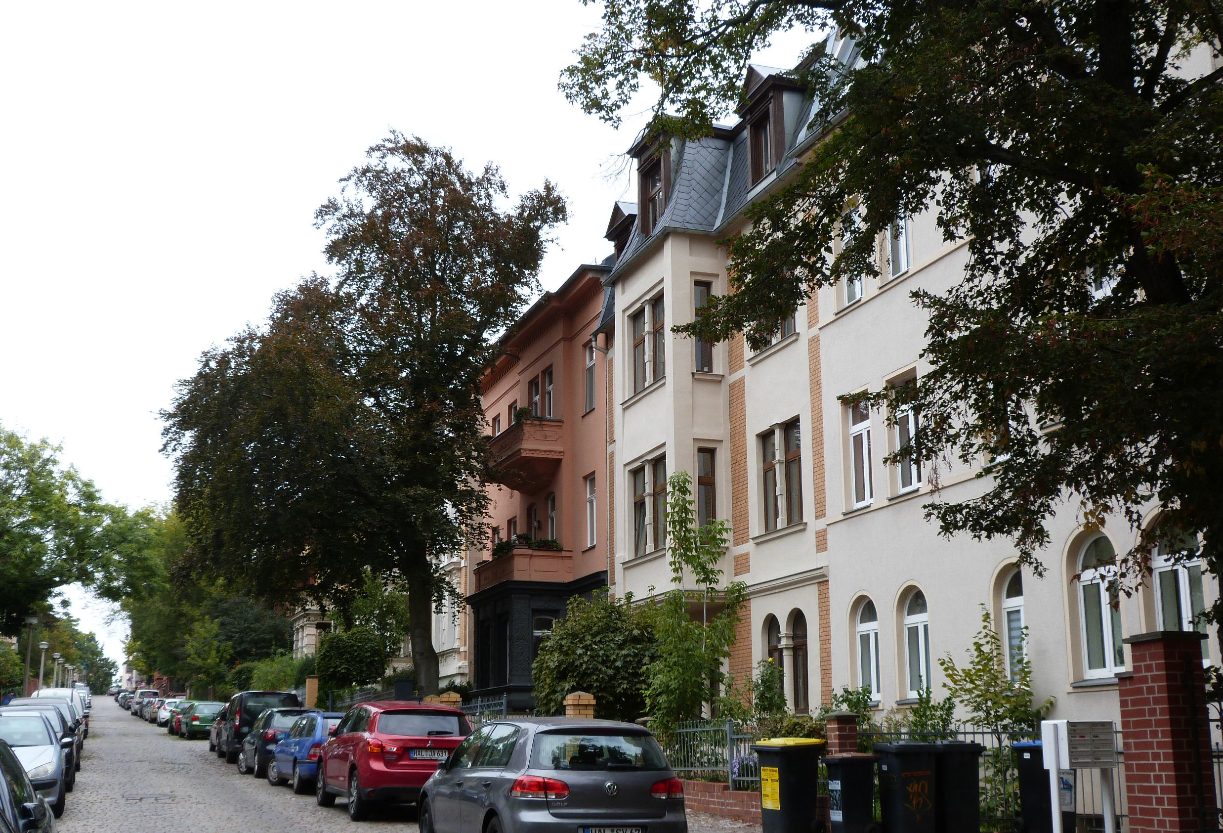 Street Advokatenweg in Halle (Saale)